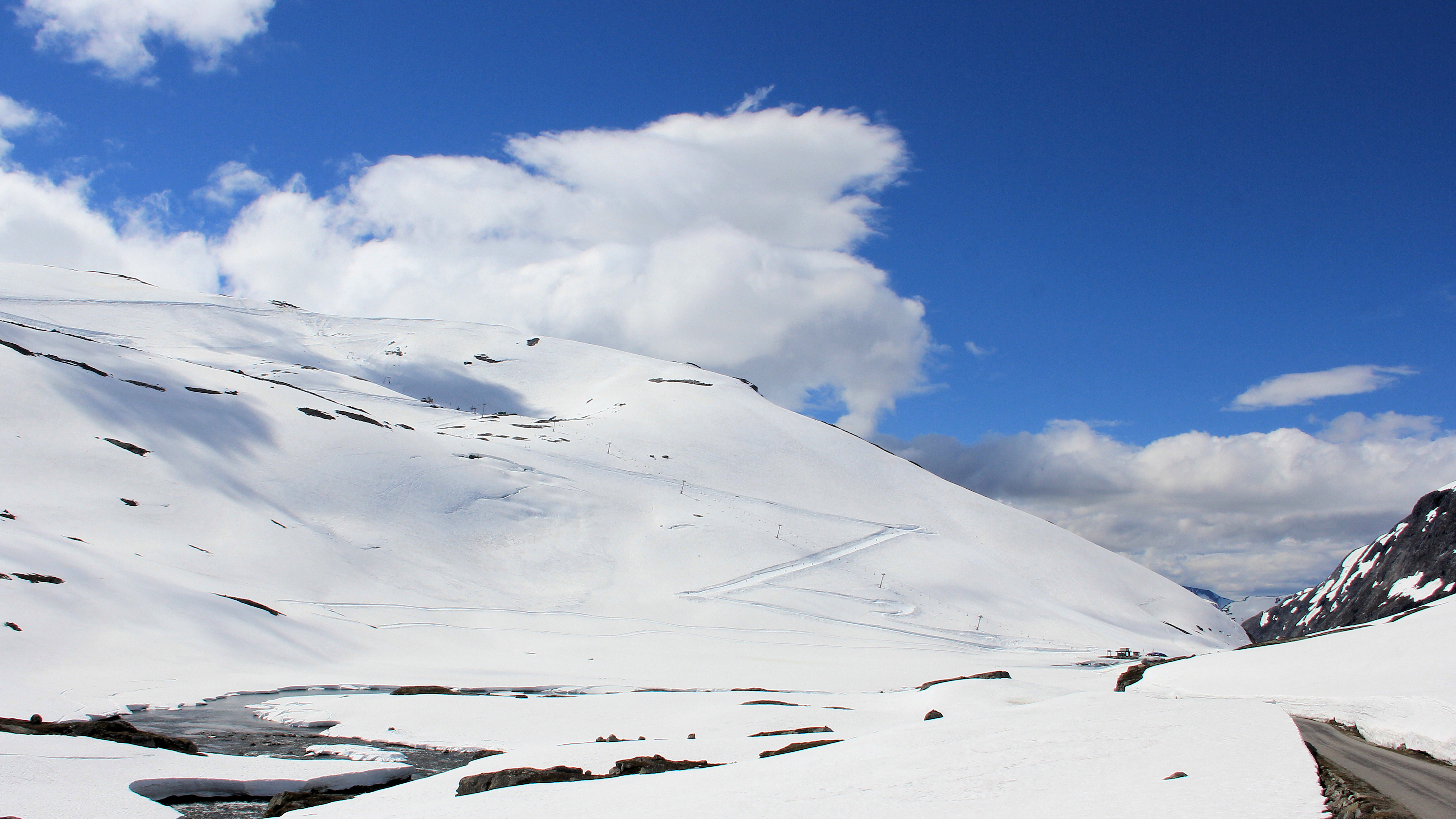 View towards the ski center, seen from East